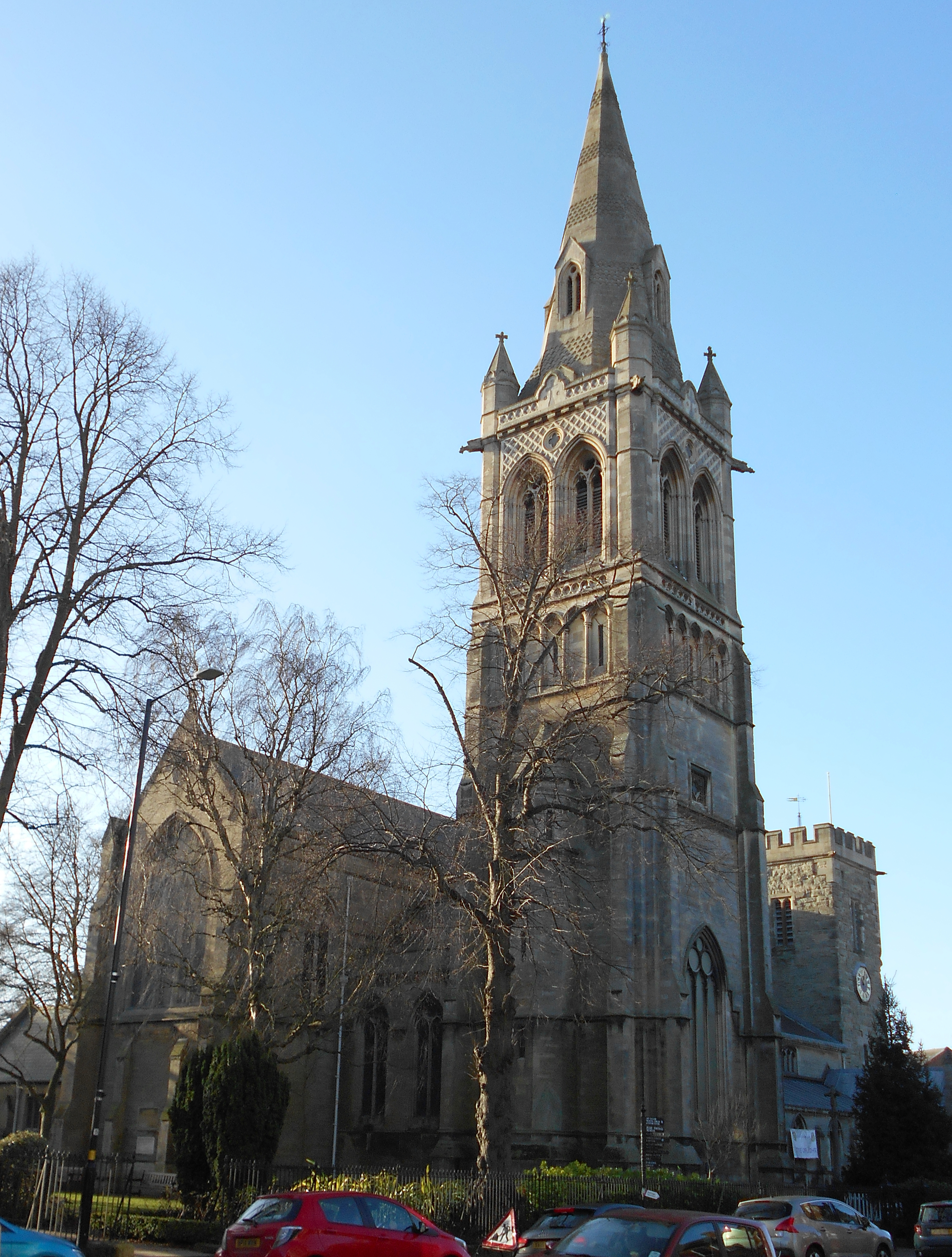 Church